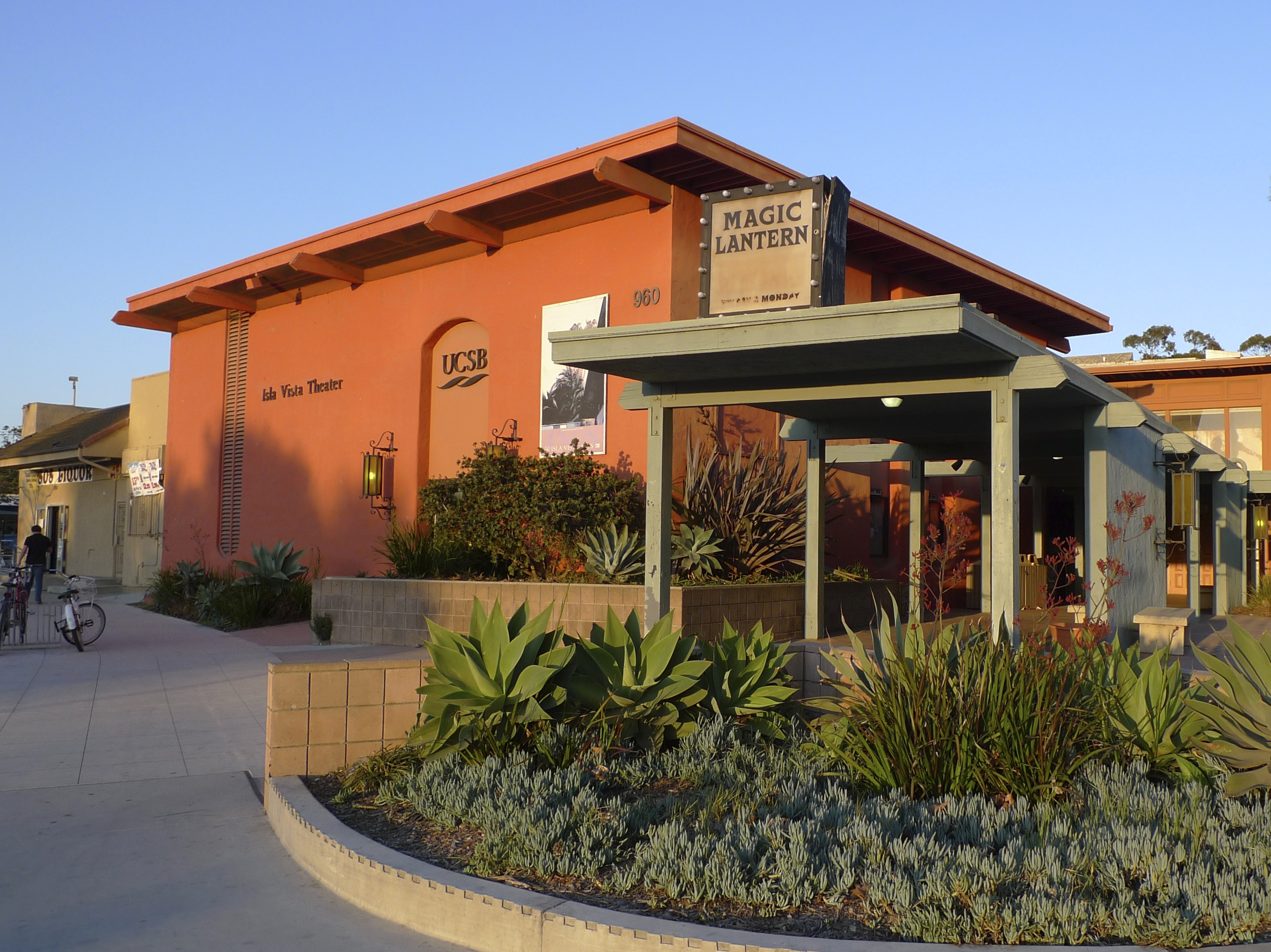 The left and right buildings are Isla Vista Theater, owned by UC Santa Barbara and used as lecture halls. These used to be the Magic Lantern, an independent movie theater that opened in 1965. UCSB sponsors an evening film screening series called Magic Lantern, named after the original theater.